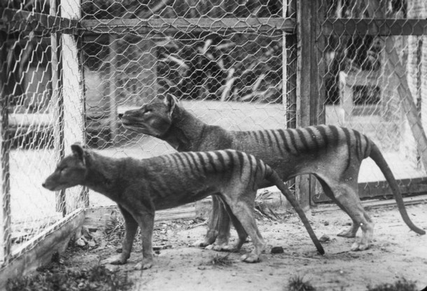 Thylacine (juvenile in foreground) pair in Hobart Zoo.